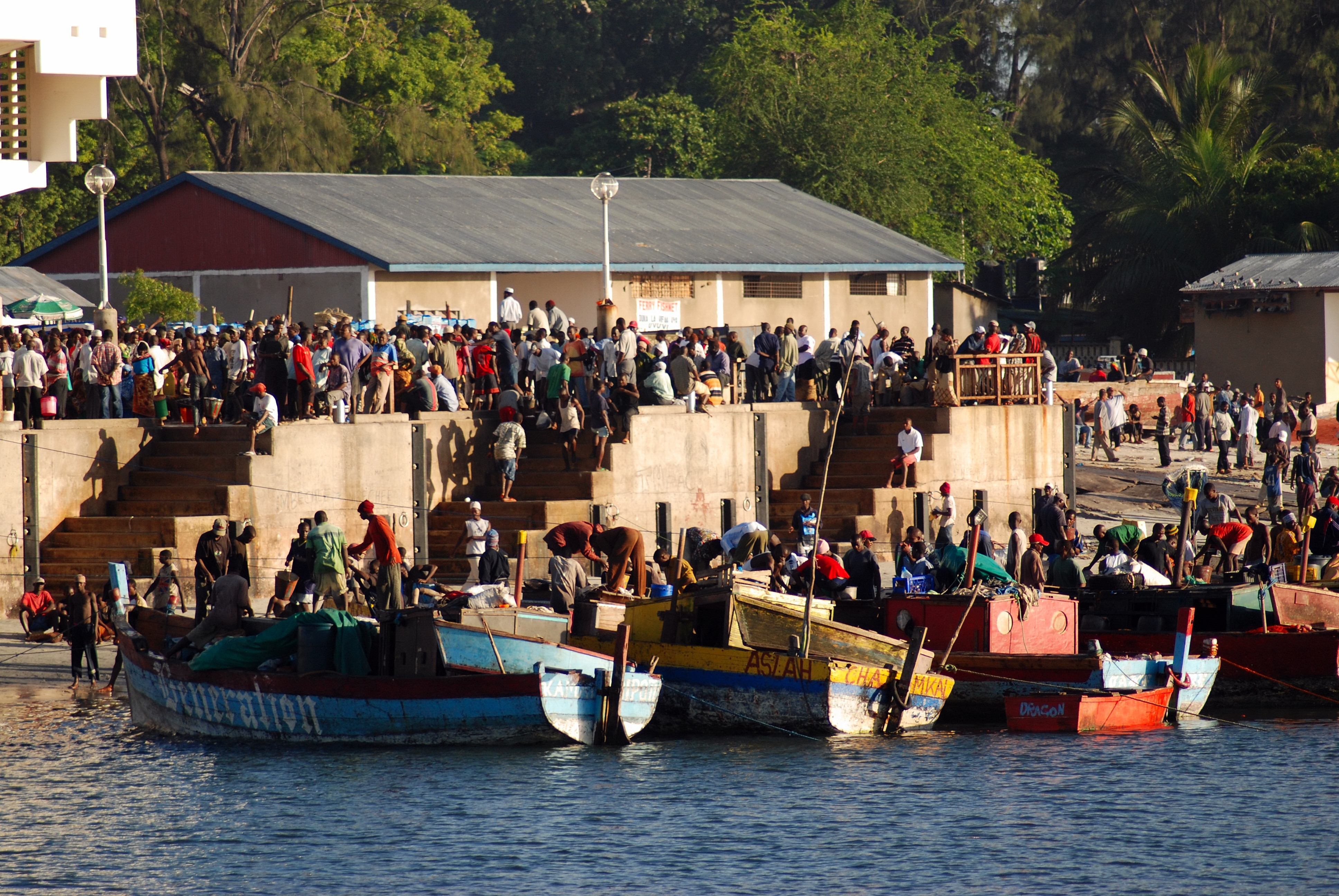 Kivukoni Market